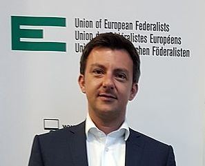 Seminar of Young European Federalists (JEF) Vorarlberg in the statehouse in Bregenz in the "Montfortsaal" on April 27, 2018. Head of Social Ministry Service Vorarlberg, Martin Staudinger.